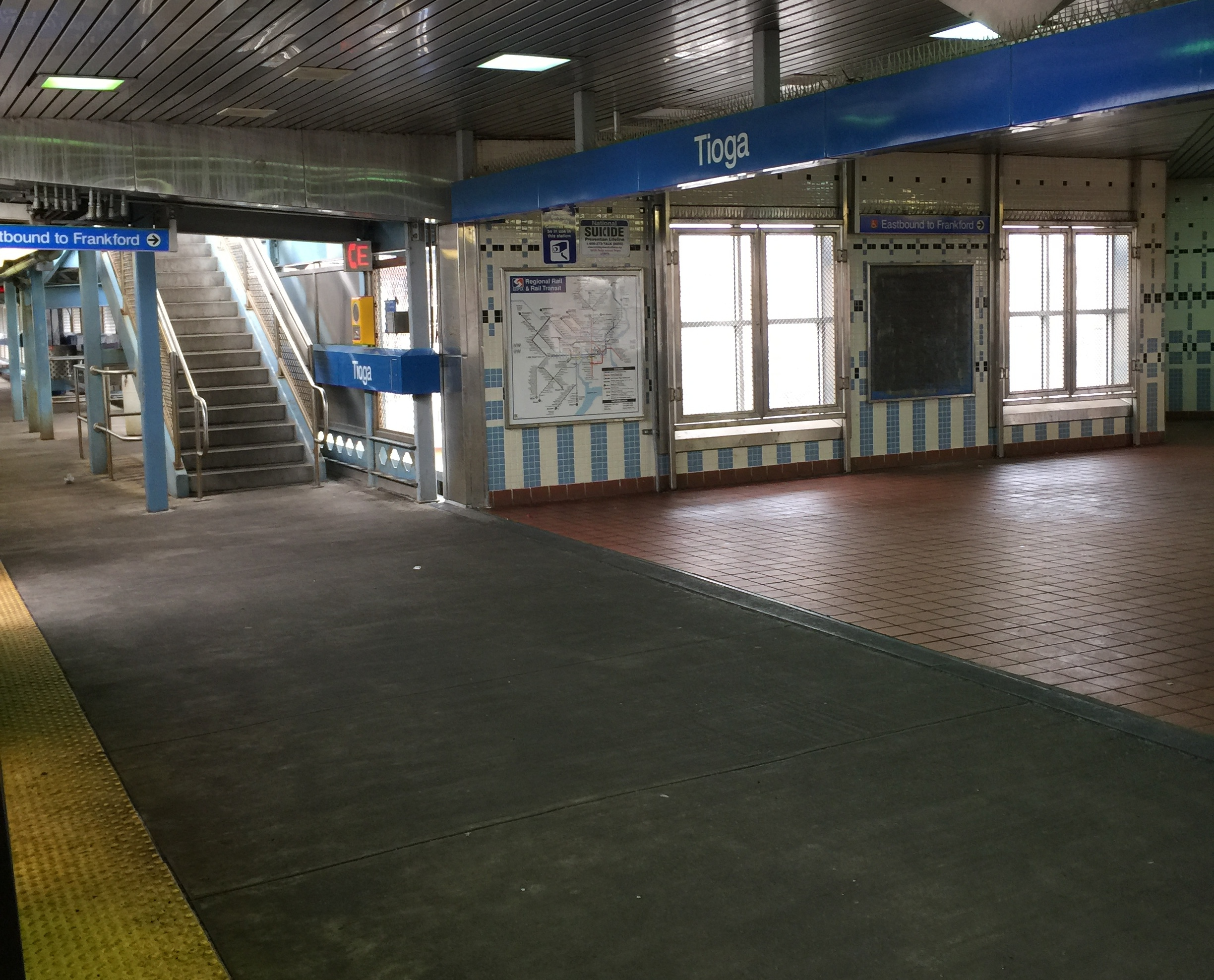 Tioga station in April 2018